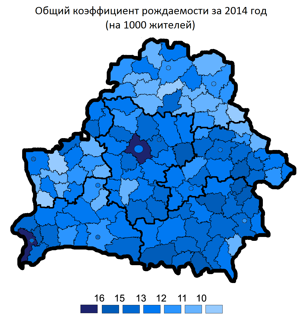 Birth rate in Belarus (2014)